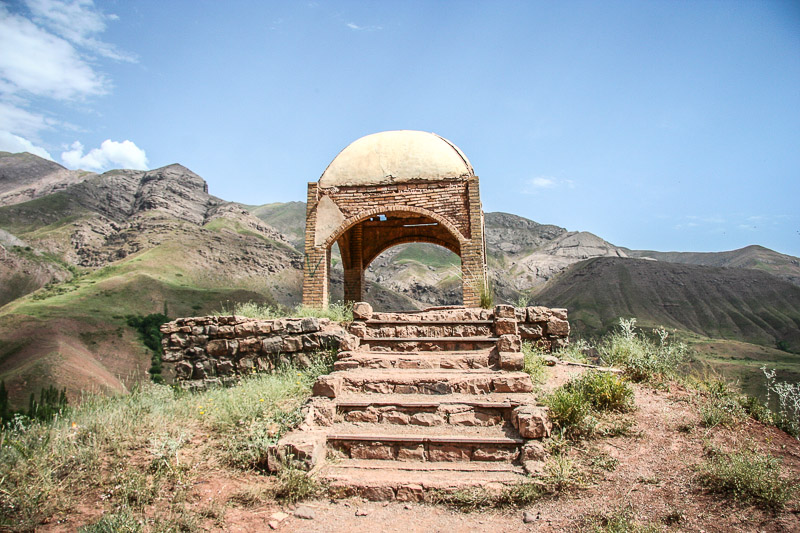 یادمان عبدالمجید طالقانی واقع در طالقان عکس: امیررضا توسلی